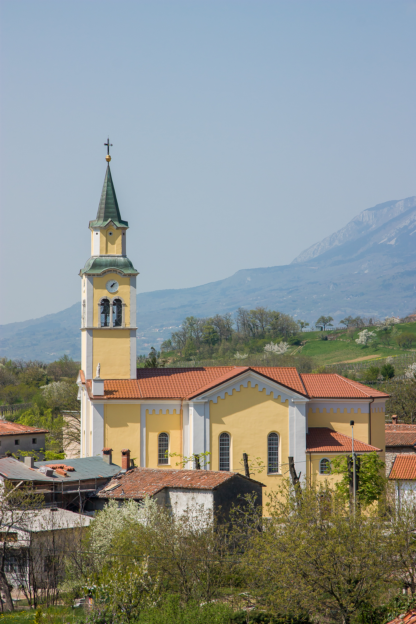 Church, Vrhpolje, side view